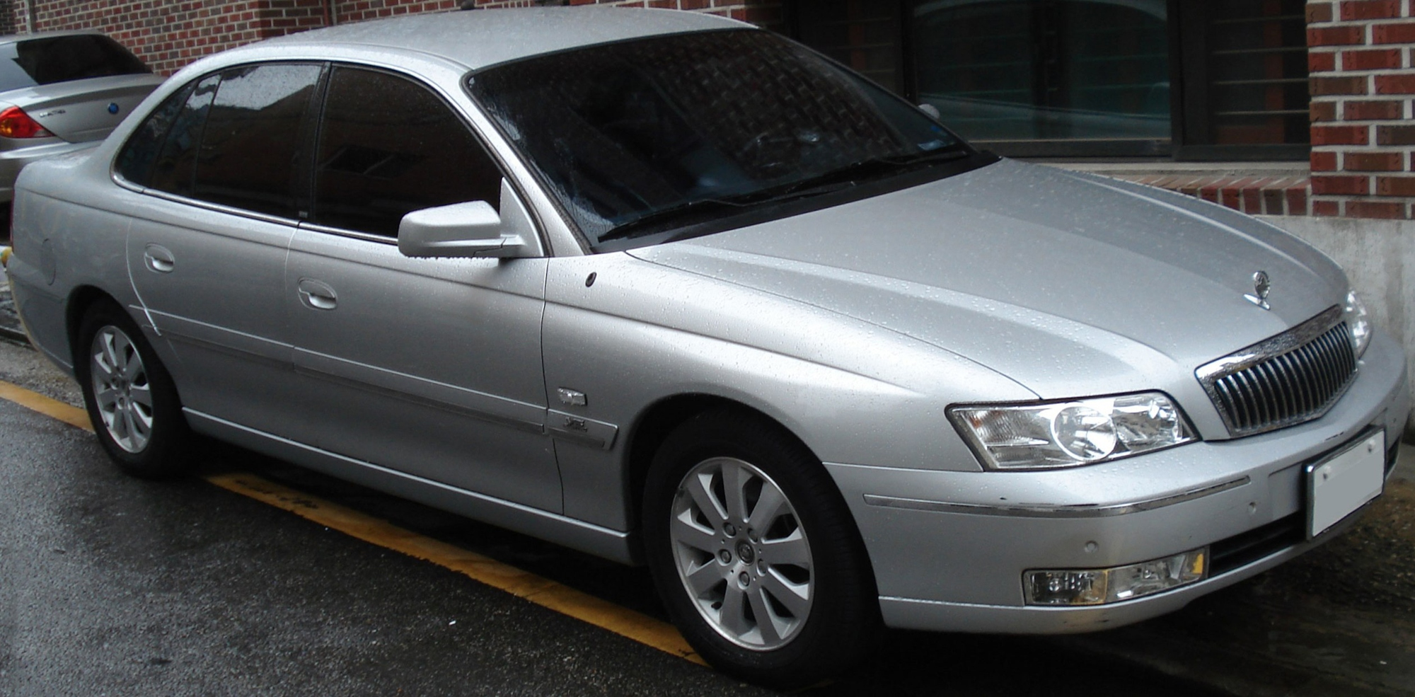 Daewoo Statesman